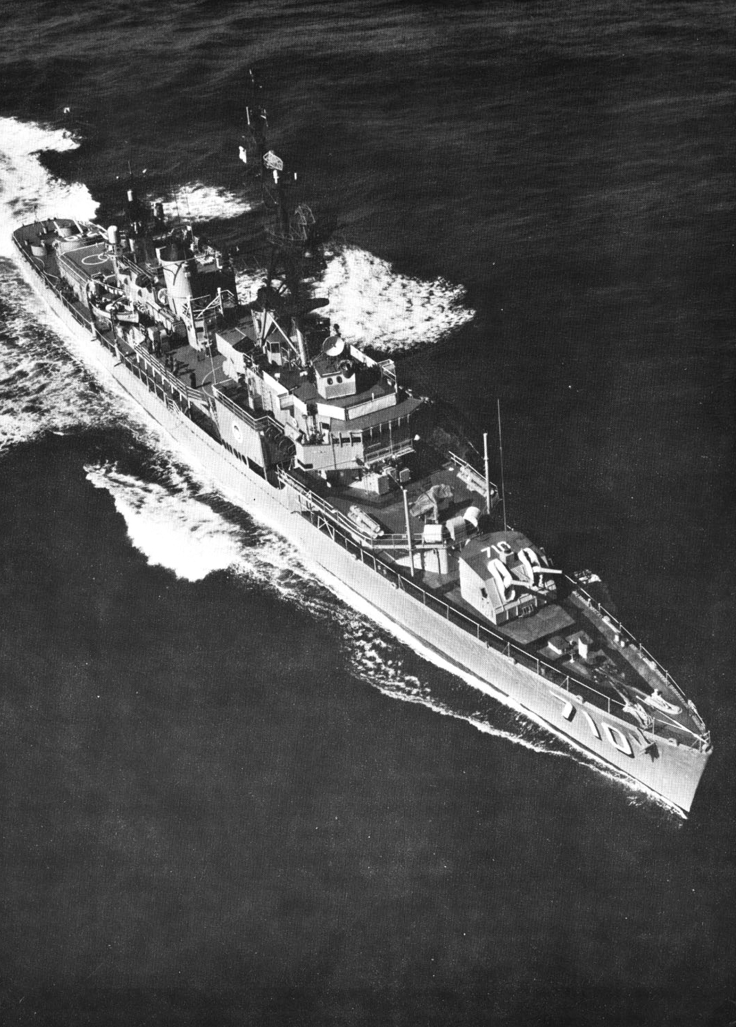 The U.S. Navy destroyer USS Gearing (DD-710) underway, circa 1966.